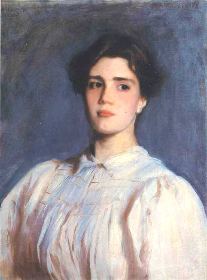 Portrait of Sally Fairchild John Singer Sargent -- American painter Cantor Art Center, Oil on canvas. 67 x 50.8 cm (26 3/8 x 20 in.) Inscription: (Upper left:) John S. Sargent (Upper right:) to Mrs. Fairchild Jpg: Webshots